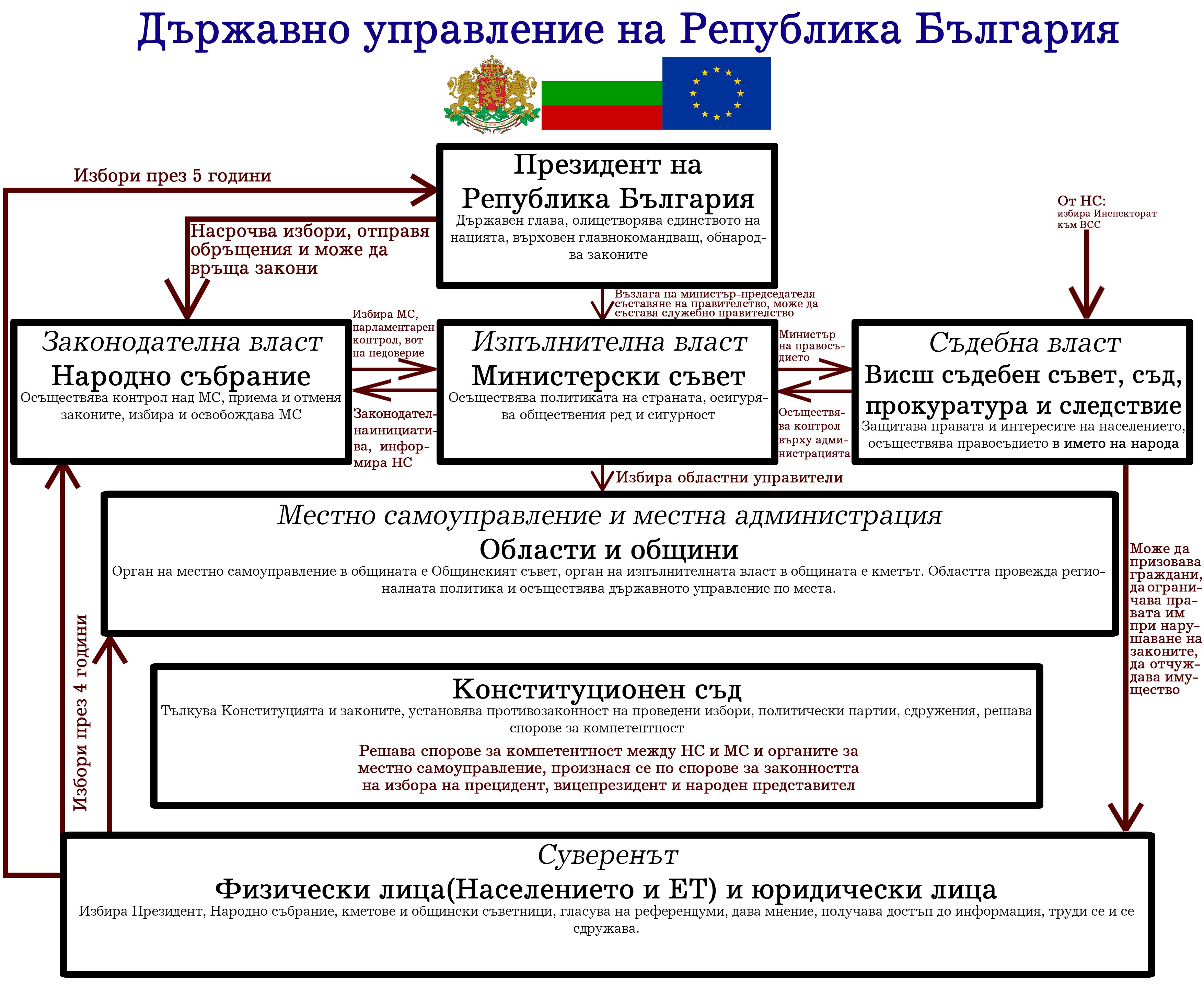 Scheme of the politics of the Republic of Bulgaria